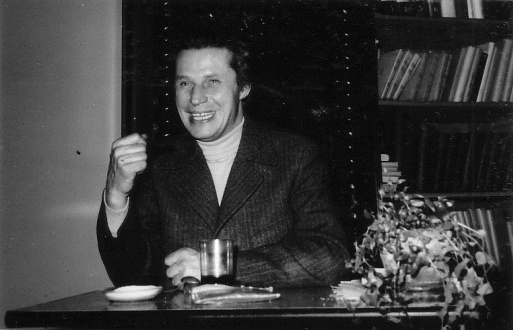 Tadeusz Śliwiak (1928-1994) - a Polish poet, actor, journalist and songwriter.